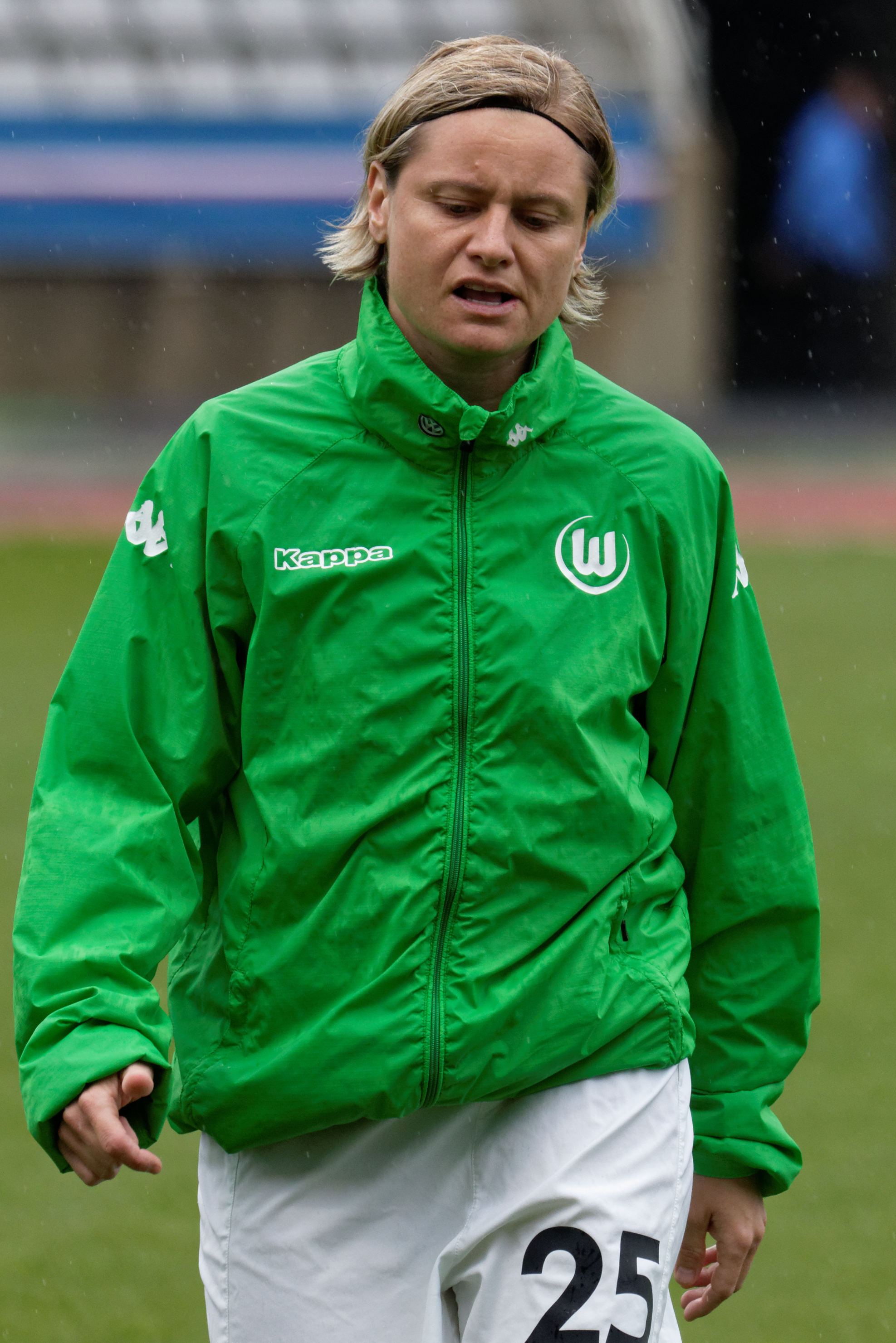 UEFA Women's Champions League, PSG - Wolfsburg, 26 April 2015.